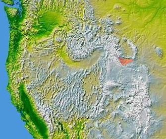 The Shoshone Basin in Wyoming ©2004 Matthew Trump